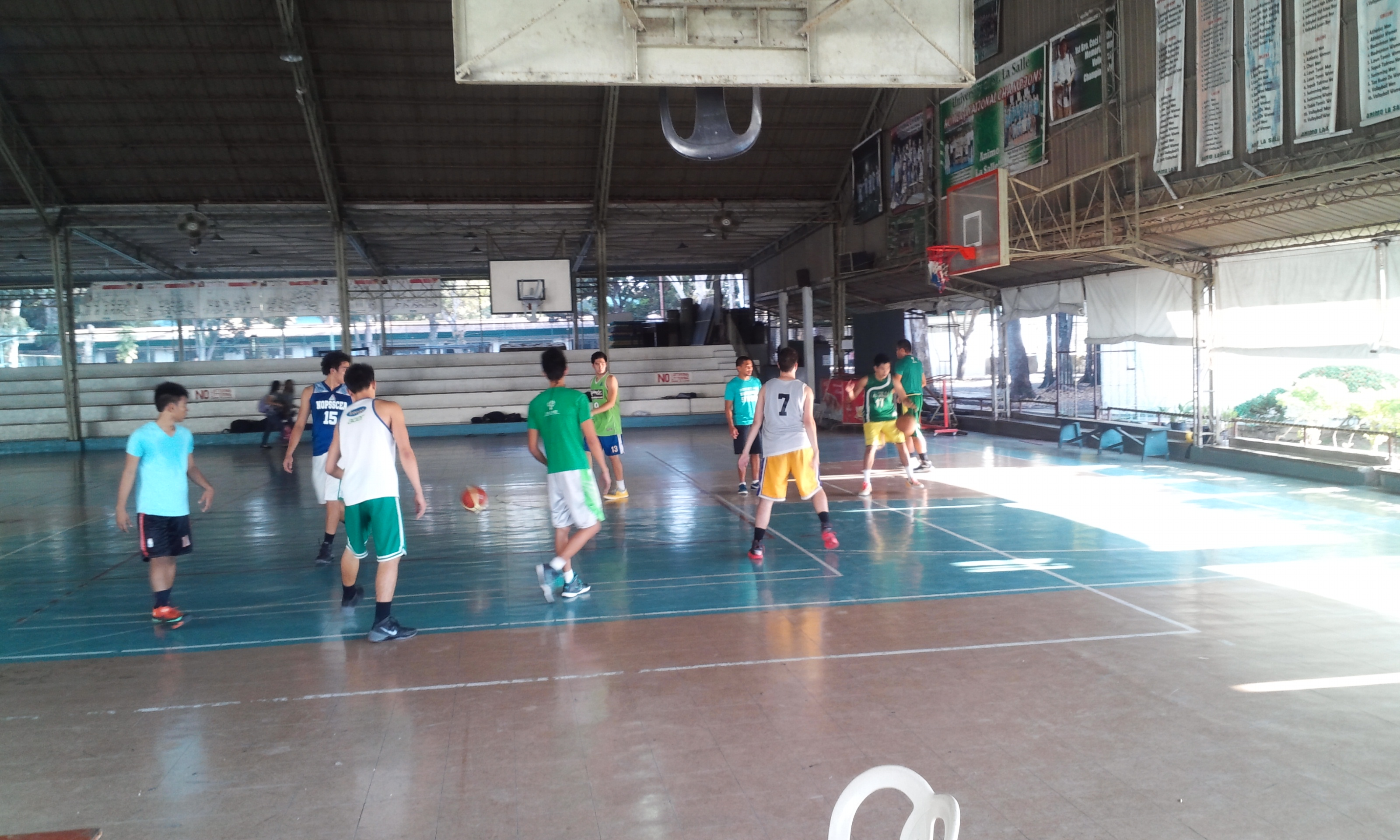 Basketball court in University of St. La Salle in March, 2014